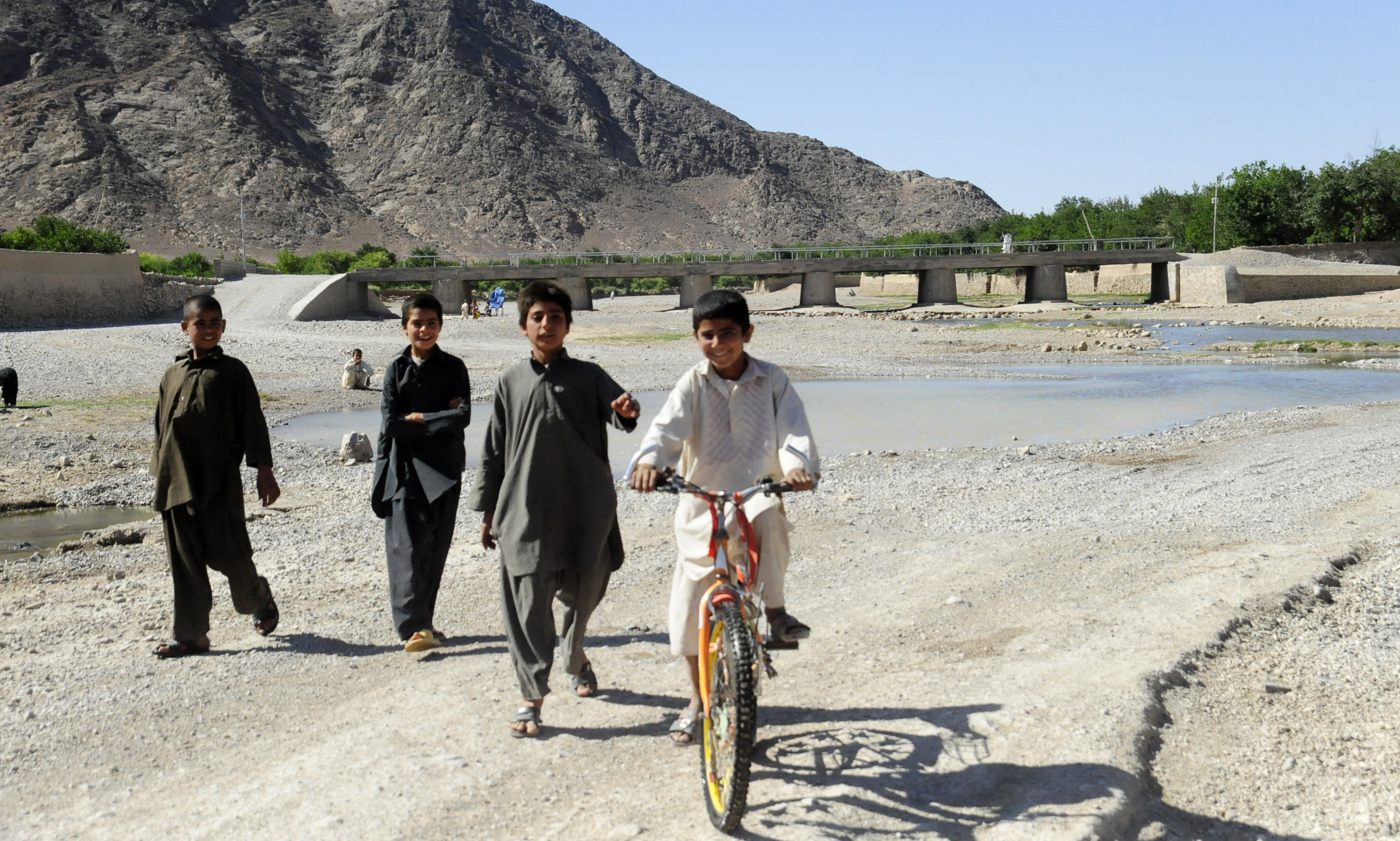 Afghan boys travel on a road near the Ana Dara Bridge in in the district of Ana Dara, Afghanistan, May 29. Provincial Reconstruction Team Farah met with Government Islamic Republic of Afghanistan officials to discuss proposed projects and tour Cha Tak School, Ana Dara Bridge and the local bazaar with the District Chief of Police.